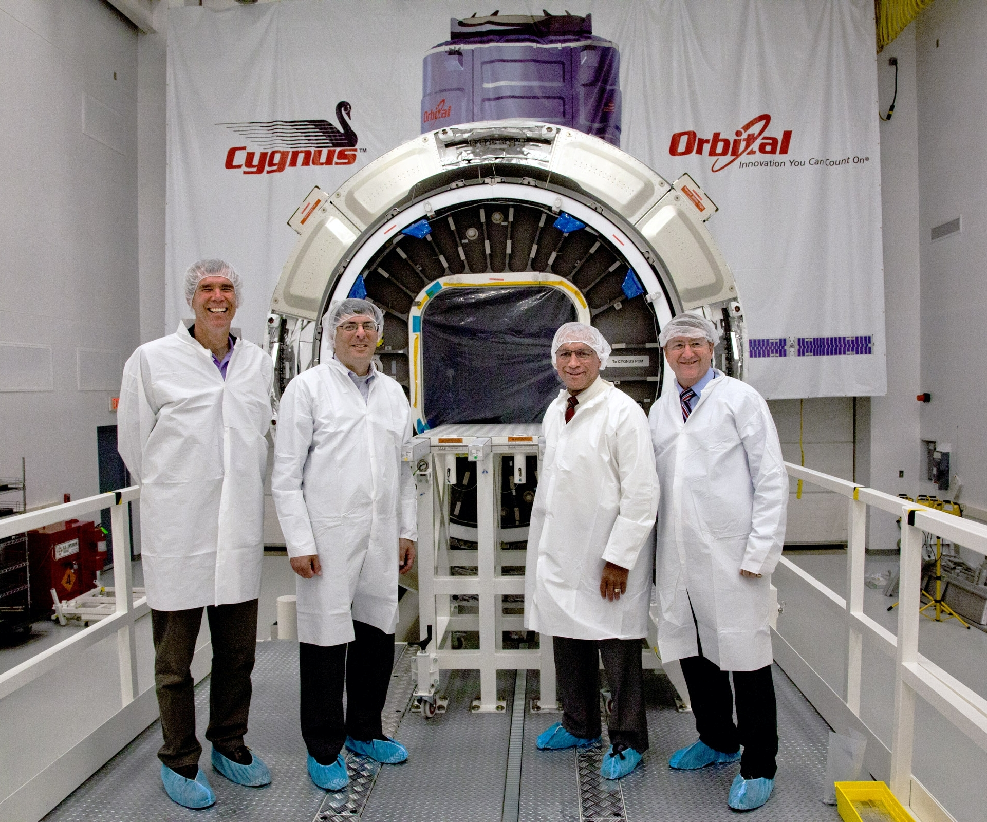 Standing in front of Orbital Sciences Corp. Cygnus cargo carrier are (left to right) Bill Wrobel, Director, Wallops Flight Facility; Chris Scolese, Director, Goddard Space Flight Center; Charles Bolden, NASA Administrator; and Frank Culbertson, senior vice president for Human Spaceflight Systems, Orbital Sciences Corp. The Administrator was at the Wallops Flight Facility to receive a development update on the Cygnus which will be used to carry supplies to the International Space Station under NASA’s Cargo Resupply Services contract with Orbital. The first demonstration flight of the Cygnus is scheduled for the fourth quarter this year aboard Orbital’s Antares launch vehicle from Wallops.